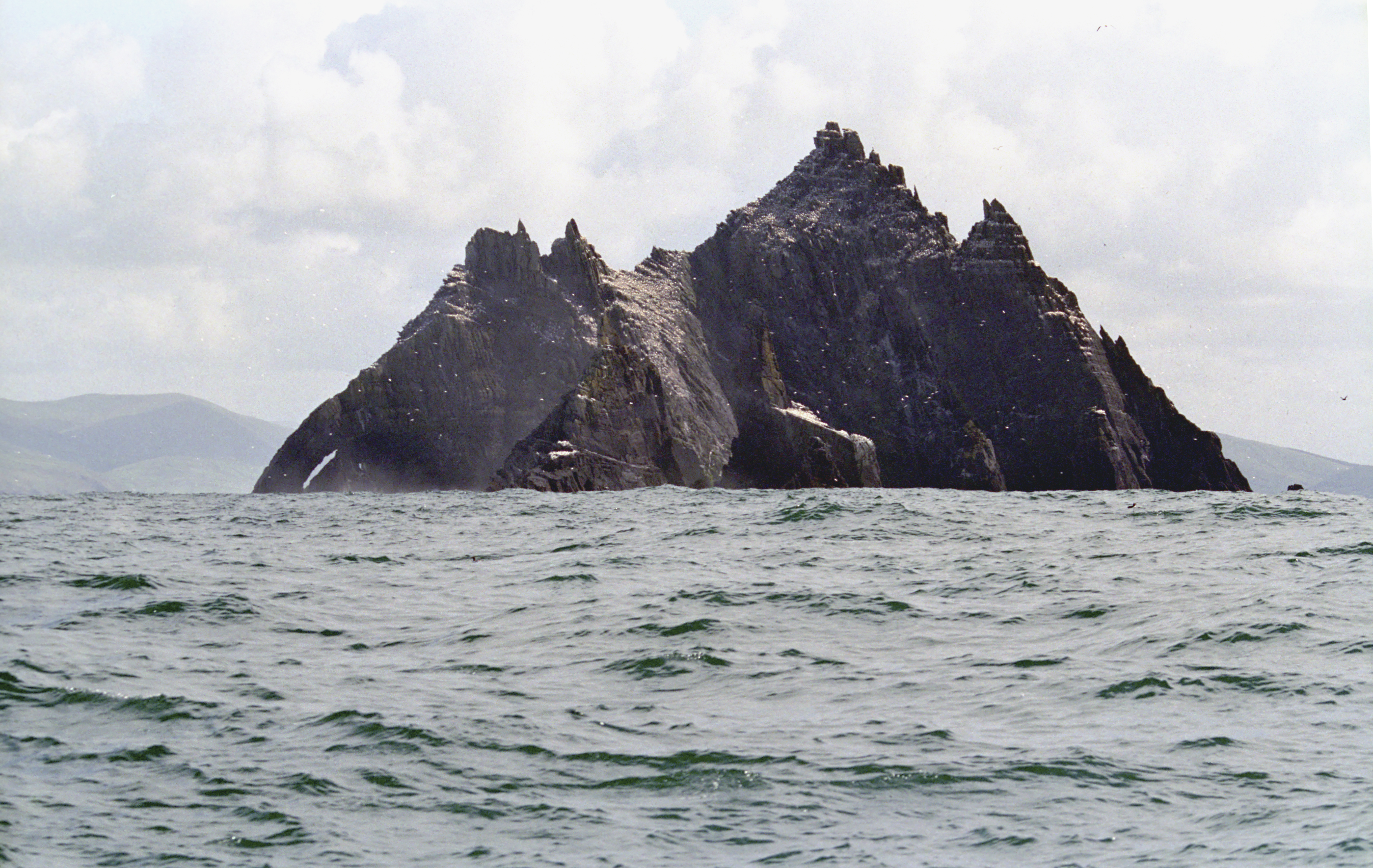 The Little Skellig